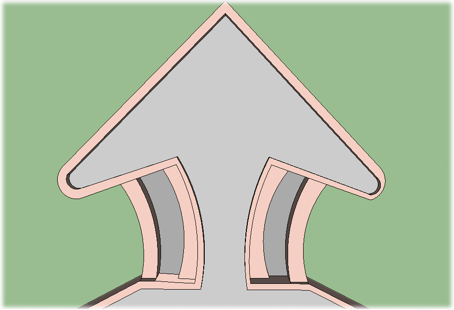 Bastion desisgn by Coehoorn